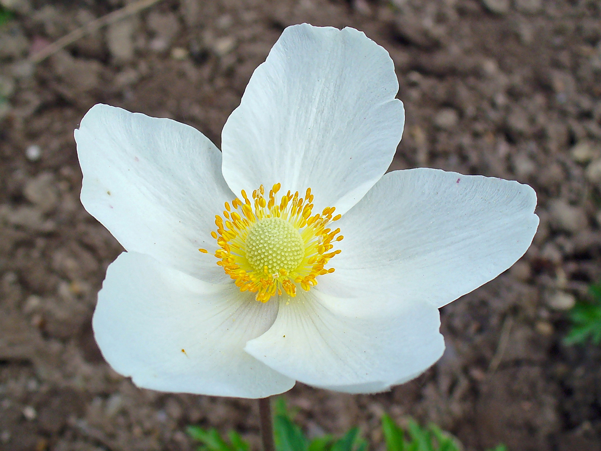 Anemone sylvestris, Ranunculaceae, Snowdrop Windflower, Wood Anemone, flower; Botanical Garden KIT, Karlsruhe, Germany.